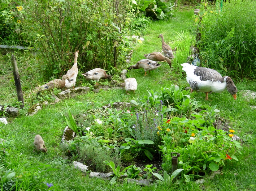 Permacultural aspect: helping animals in a veggie garden; harnessing and maintenance